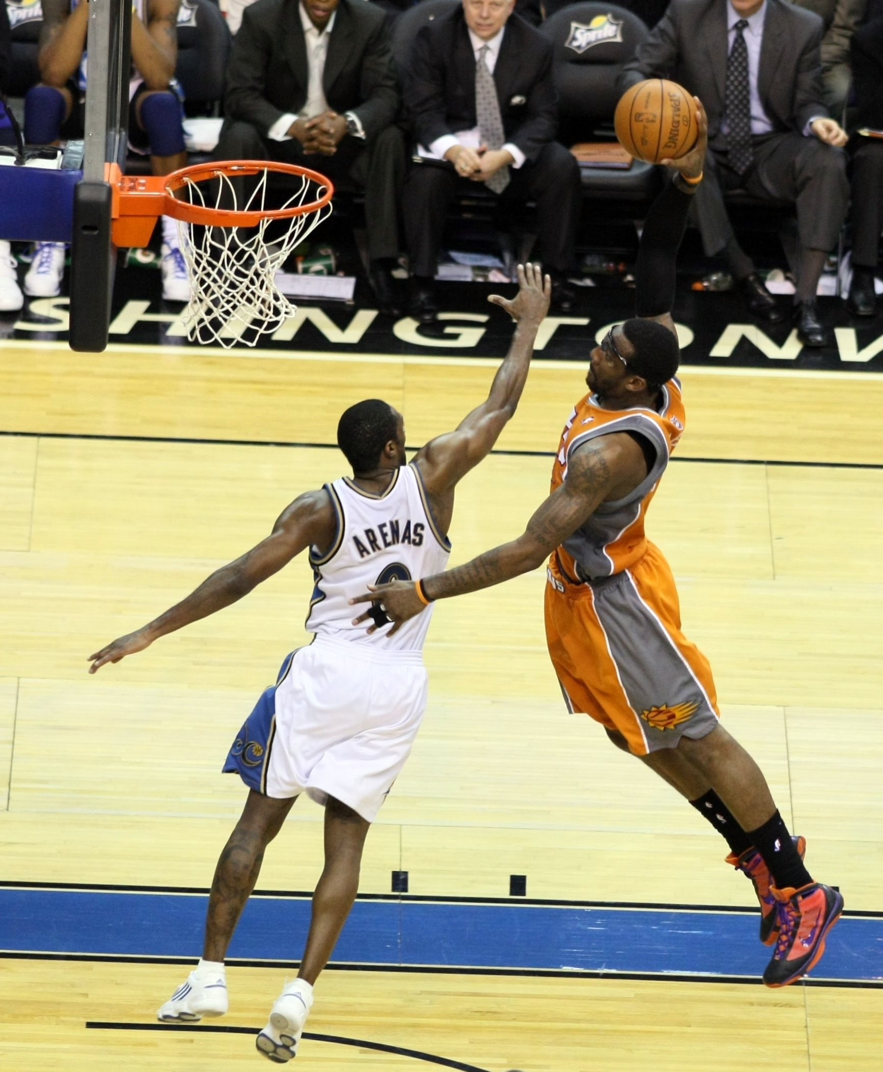 Amare Stoudamire dunks over Gilbert Arenas during the Washington Wizards v/s Phoenix Suns game November 8, 2009 at Verizon Center in Washington, D.C.